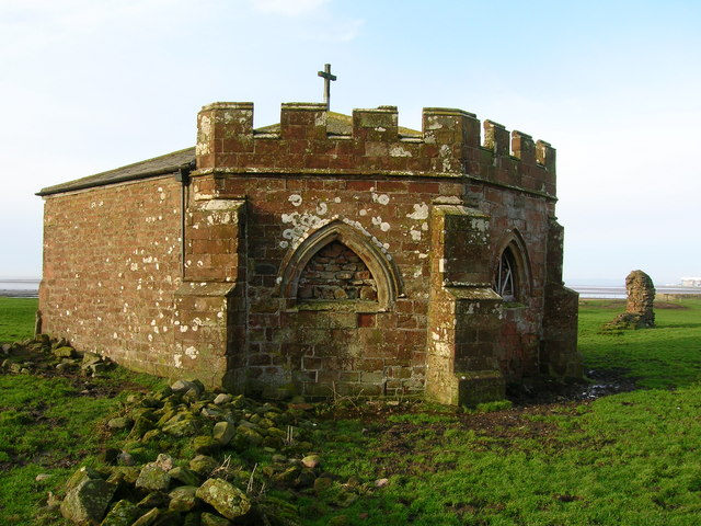 All that remains...